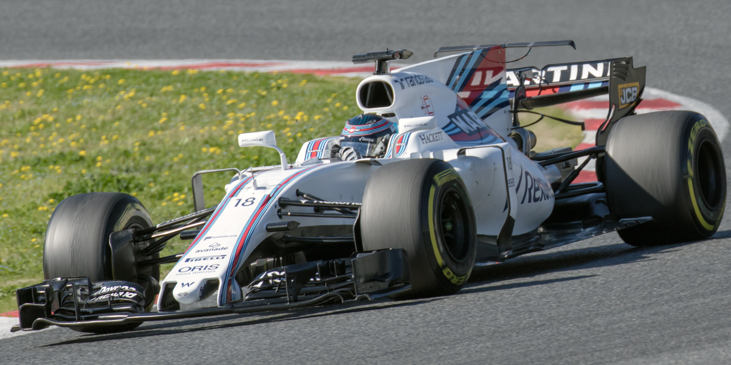 Formula One 2017 Catalonia test (27 February-2 March): Lance Stroll (Williams)